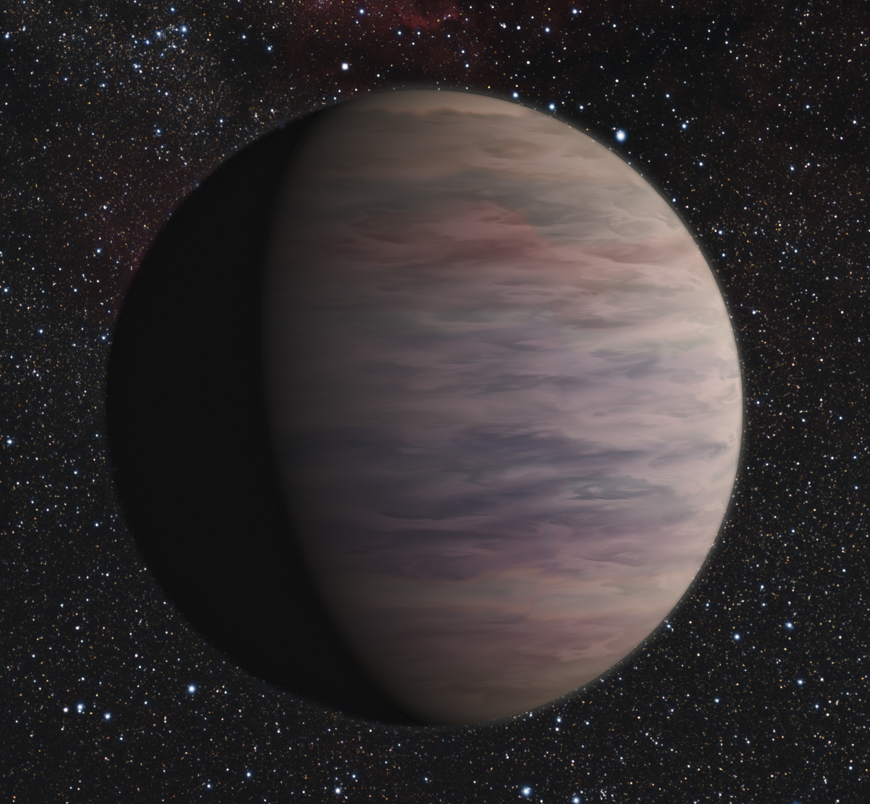 This image shows an artist’s impression of the ten hot Jupiter exoplanets studied by David Sing and his colleagues. From top left to lower left (right?) these planets are WASP-12b, WASP-6b, WASP-31b, WASP-39b, HD 189733b, HAT-P-12b, WASP-17b, WASP-19b, HAT-P-1b and HD 209458b. The images are to scale with each other. HAT-P-12b, the smallest of them, is approximately the size of Jupiter, while WASP-17b, the largest planet in the sample, is almost twice the size. The planets are also depicted with a variety of different cloud properties. There is almost no information about the colours of the planets available, with the exception of HD 189733b, which became known as the blue planet (heic1312). The hottest planets within the sample are portrayed with a glowing night side. This effect is strongest on WASP-12b, the hottest exoplanet in the sample, but also visible on WASP-19b and WASP-17b. It is also known that several of the planets exhibit strong Rayleigh scattering. This effect causes the blue hue of the daytime sky and the reddening of the Sun at sunset on Earth. It is also visible as a blue edge on the planets WASP-6b, HD 189733b, HAT-P-12b, and HD 209458b. The wind patterns shown on these ten planets, which resemble the visible structures on Jupiter, are based on theoretical models.